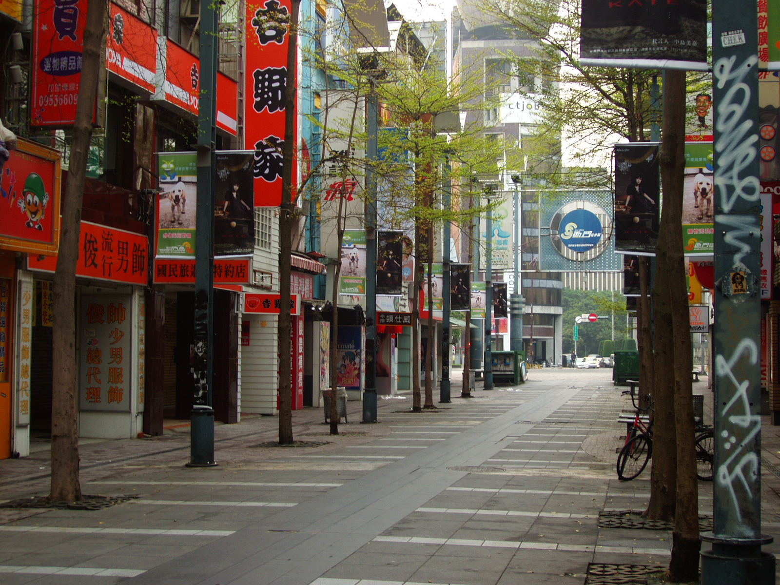 No people on Section 2, Wuchang Street, Wanhua District, Taipei City in the morning.